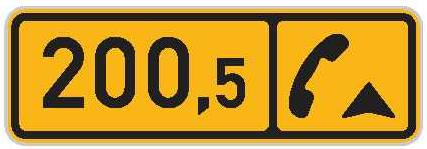 Road sign of the Czech Republic